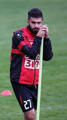 Mehrdad Kafshgari in Persepolis training